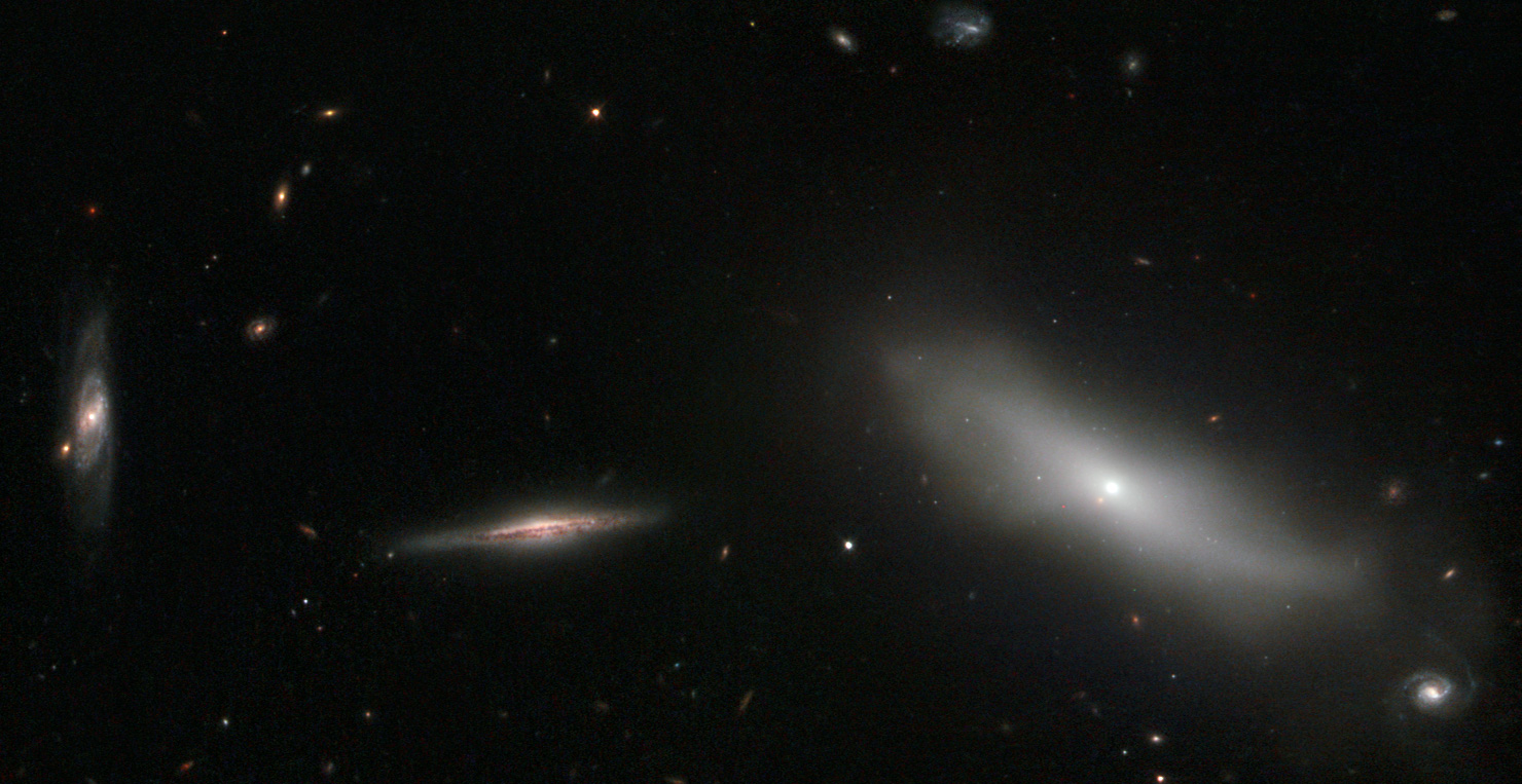 This new Hubble image shows a handful of galaxies in the constellation of Eridanus (The River). NGC 1190, shown here on the right of the frame, stands apart from the rest; it belong to an exclusive club known as Hickson Compact Group 22 (HCG 22). There are four other members of this group, all of which lie out of frame: NGC 1189, NGC 1191, NGC 1192, and NGC 1199. The other galaxies shown here are nearby galaxies 2MASS J03032308-1539079 (centre), and dCAZ94 HCG 22-21 (left), both of which are not part of HCG 22. Hickson Compact Groups are incredibly tightly bound groups of galaxies. Their discoverer Paul Hickson observed only 100 of these objects, which he described in his HCG catalogue in the 1980s. To earn the Hickson Compact Group label, there must be at least four members — each one fairly bright and compact. These short-lived groups are thought to end their lives as giant elliptical galaxies, but despite knowing much about their form and destiny, the role of compact galaxy groups in galactic formation and evolution is still unclear. These groups are interesting partly for their self-destructive tendencies. The group members interact, circling and pulling at one another until they eventually merge together, signalling the death of the group, and the birth of a large galaxy. A version of this image was entered into the Hubble's Hidden Treasures image processing competition by contestant Luca Limatola.